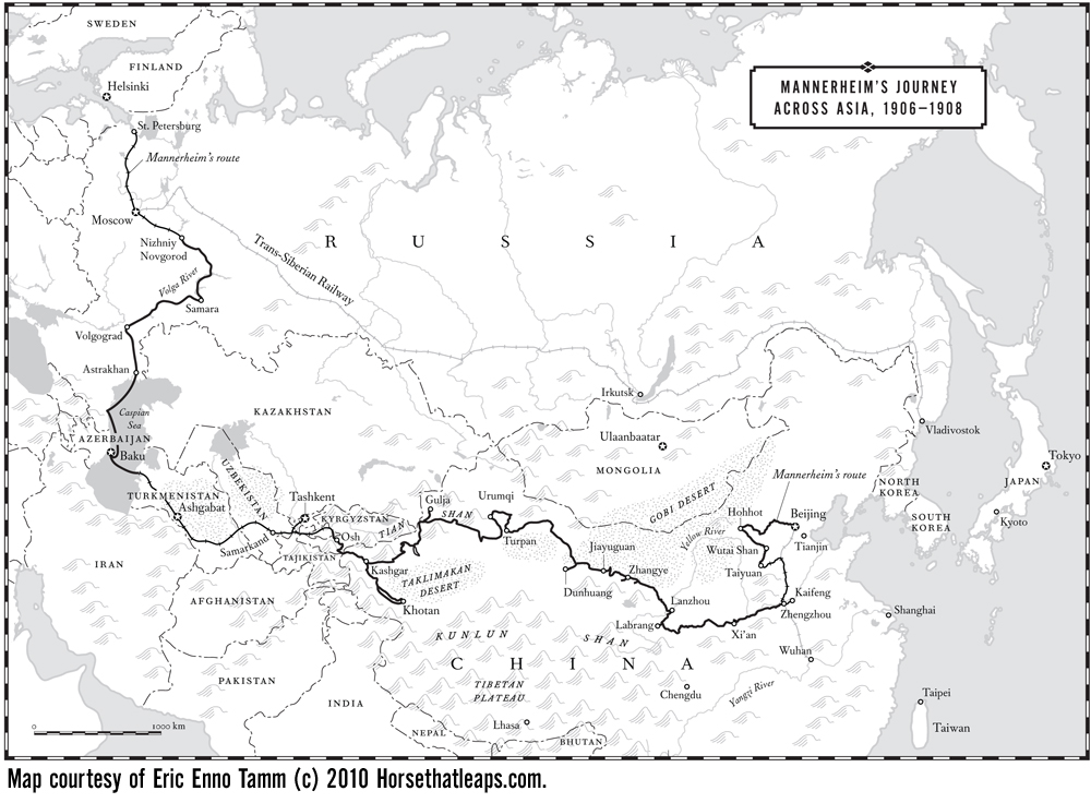 Map of Gustaf Mannerheim's expedition across Asia first published in "The Horse That Leaps Through Clouds: A Tale of Espionage, the Silk Road and the Rise of Modern China," by Eric Enno Tamm, 2010, see